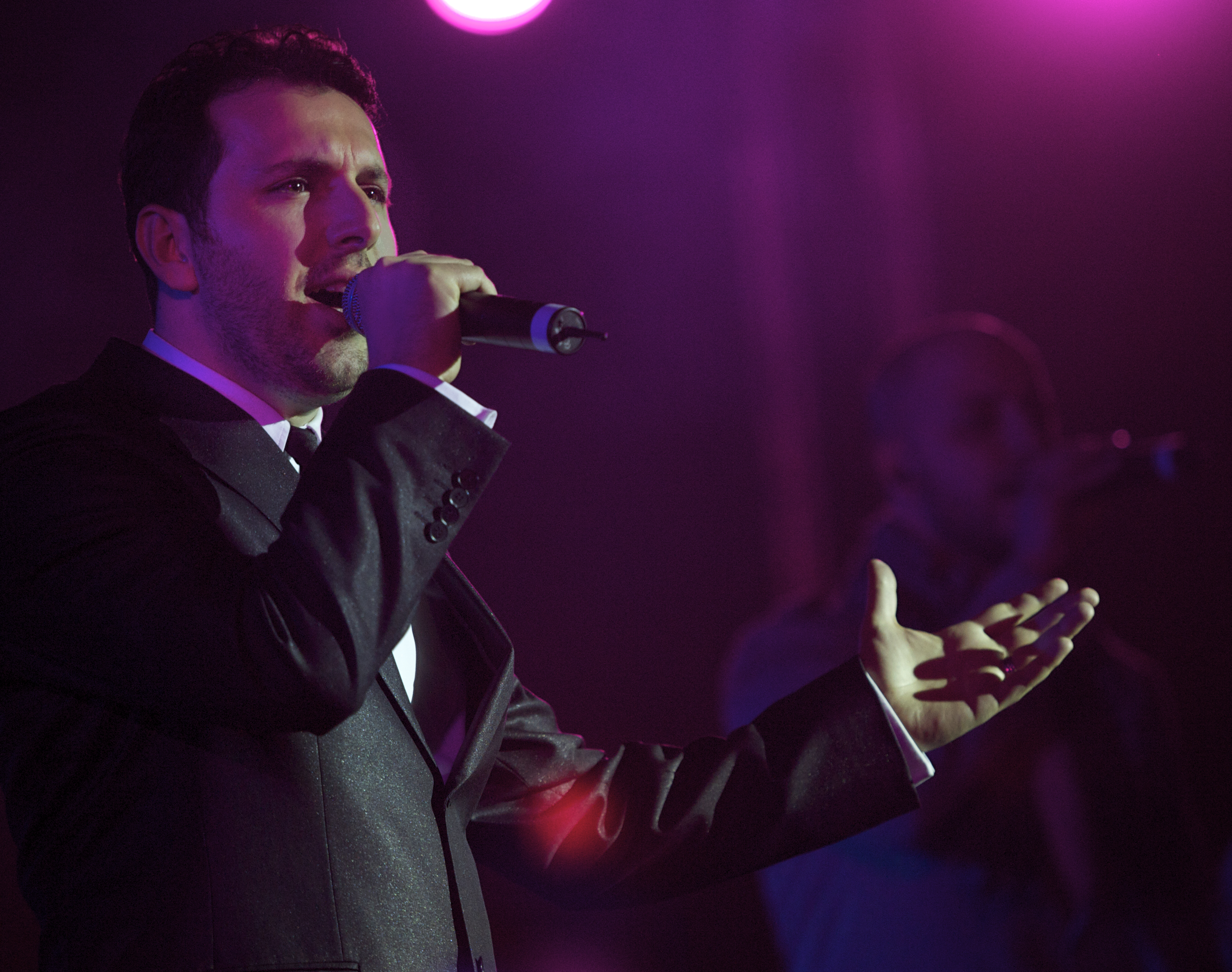 Mesut Kurtis perform in Apollo theatre, London, 2013